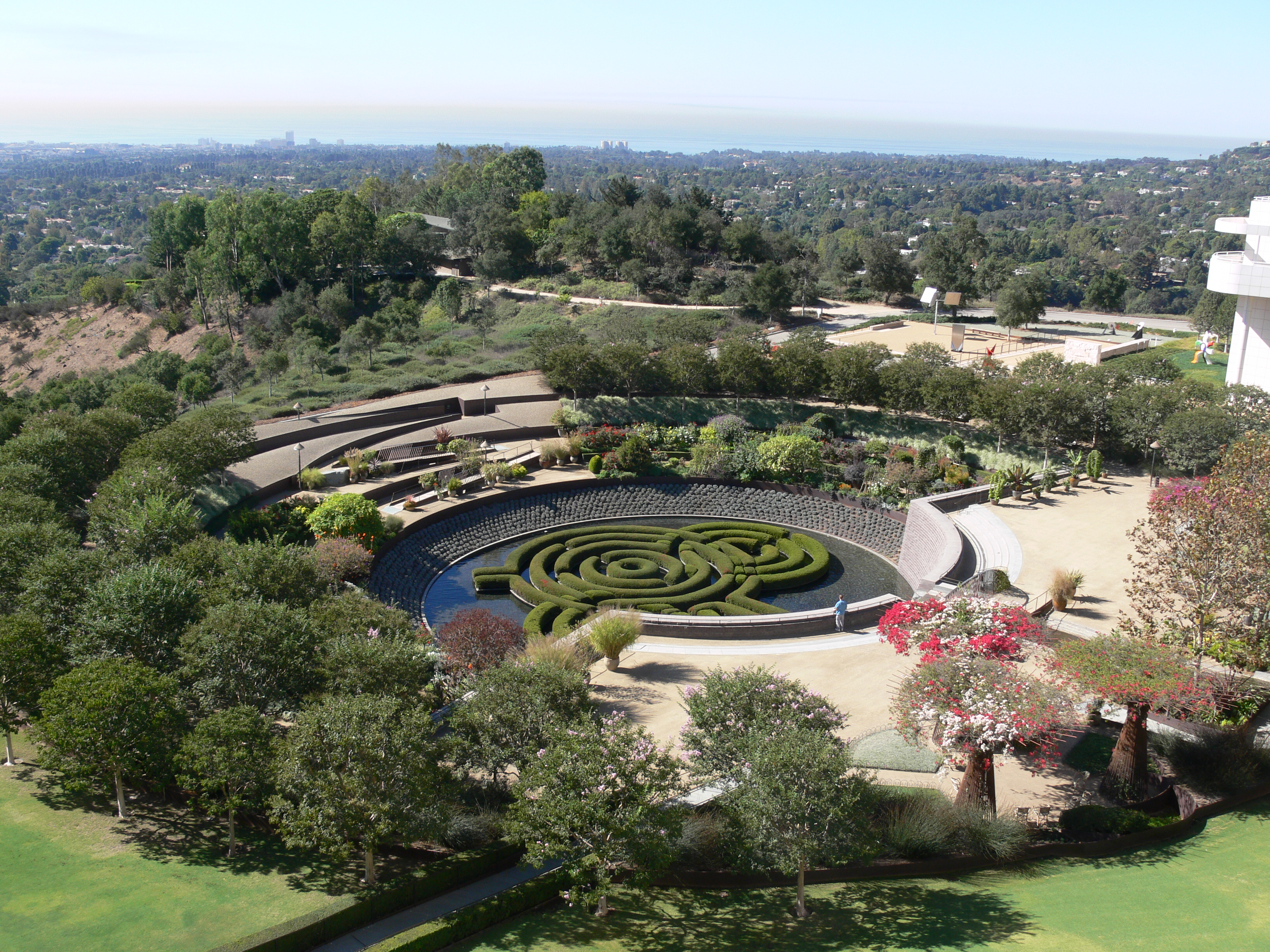 Getty Center, Los Angeles, California Central Garden